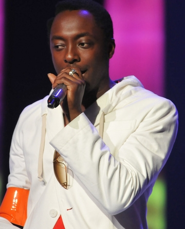 The Black Eyed Peas rocked the house for the crowd during the 2011 Walmart Shareholders Meeting at the Walton Arena in Fayetteville, Arkansas. To watch the replay of the event, view videos, and join the conversation, visit